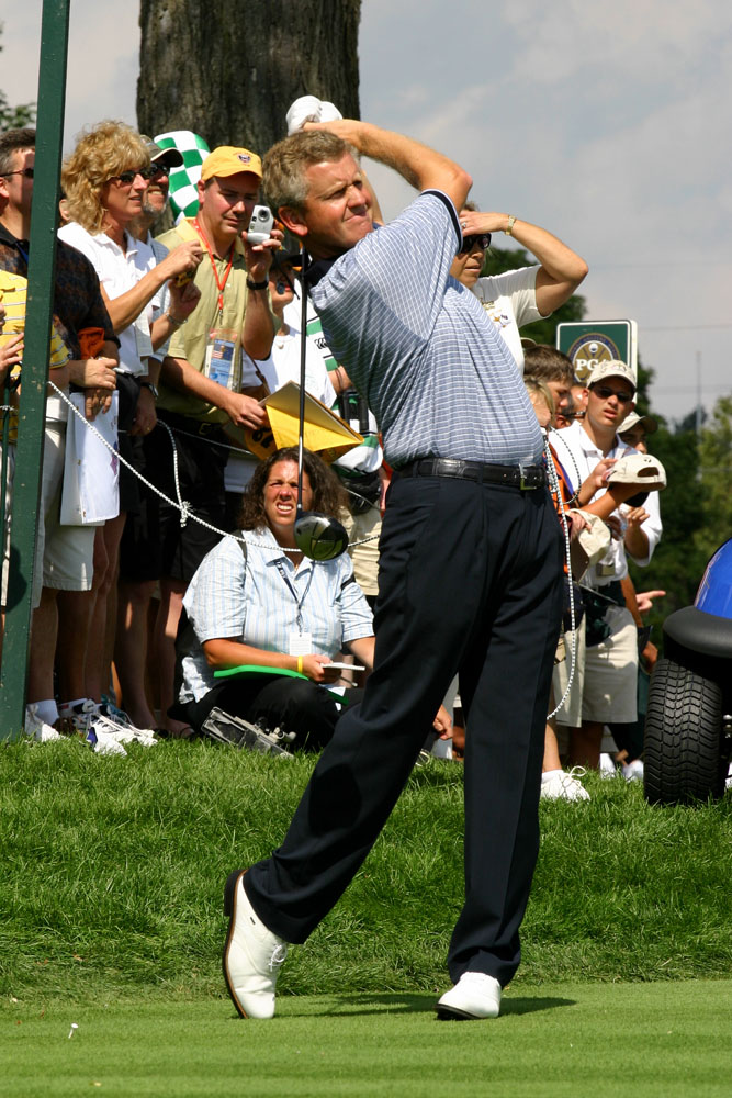 Colin Montgomerie practicing a day before the 2004 Ryder Cup at the Oakland Hills Country Club in Bloomfield Hills, Michigan.